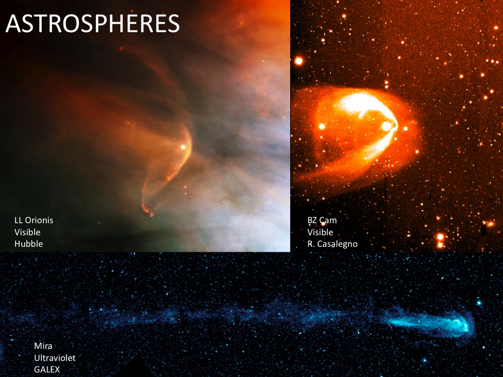 The conditions necessary to make the heliosphere, namely the balance of an outward pushing stellar wind and the inward compression of surrounding interstellar gas is so common, that perhaps most stars have analogous structures, called astrospheres. Photographs of three such astrospheres are shown, as taken by various telescopes